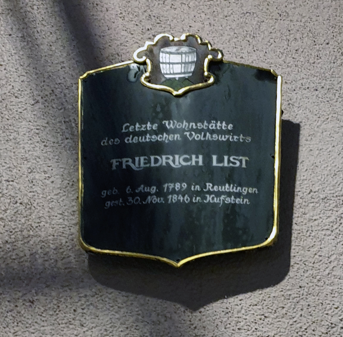 Memorial plaque, Friedrich List, Unterer Stadtplatz 6, Kufstein, Österreich